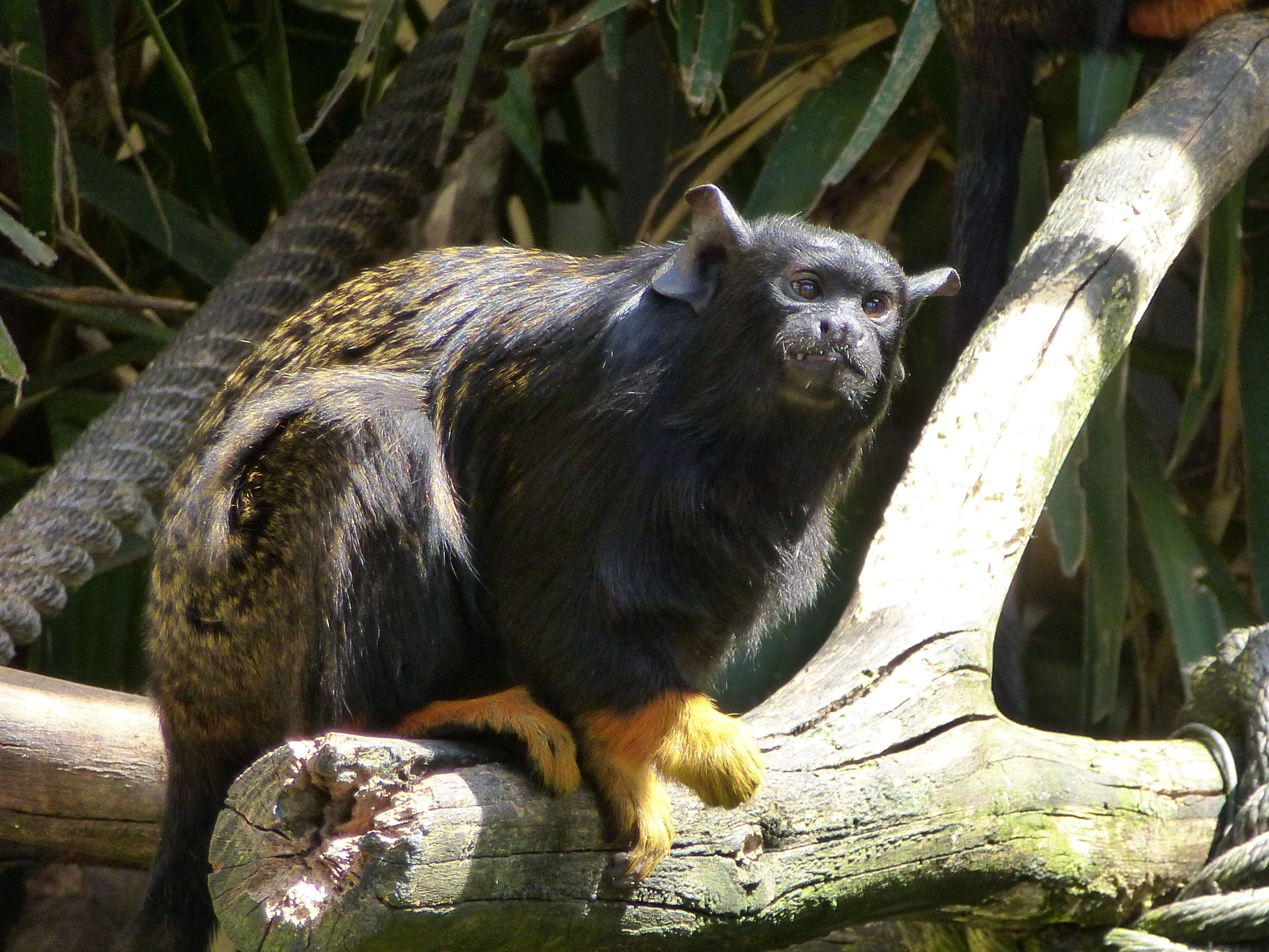 Saguinus midas in Lisbon Zoo. Portugal